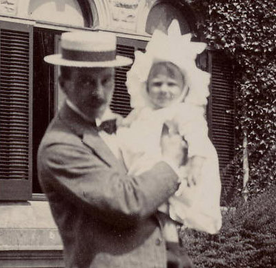 W:Arthur Markham son of Charles Paxton Markham and brother of Violet Markham. Charles Markham was part owner of the family coal mine, Markham Main Colliery, in Chesterfield. Arthur holds his only daugher Joyous Markham on her first birthday in 1903